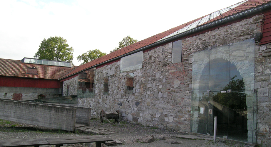 Storhamar barn seen from courtyard. Oldest parts medieval; rebuilt as museum building by architect Sverre Fehn 1967-1969.